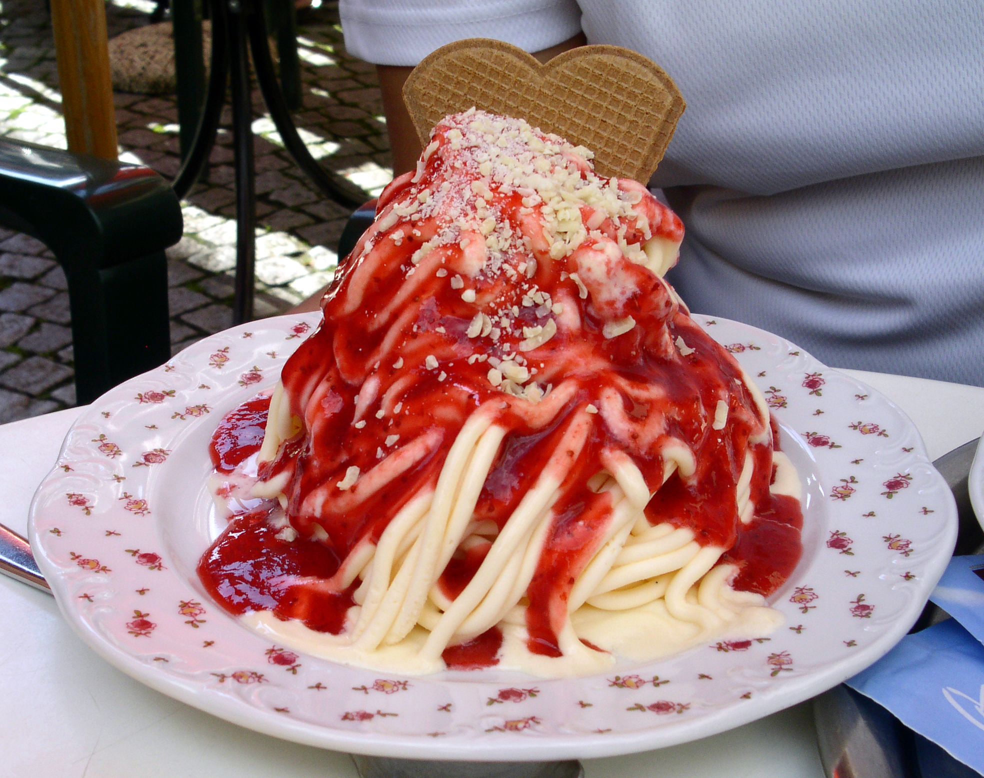 Spaghetti Ice